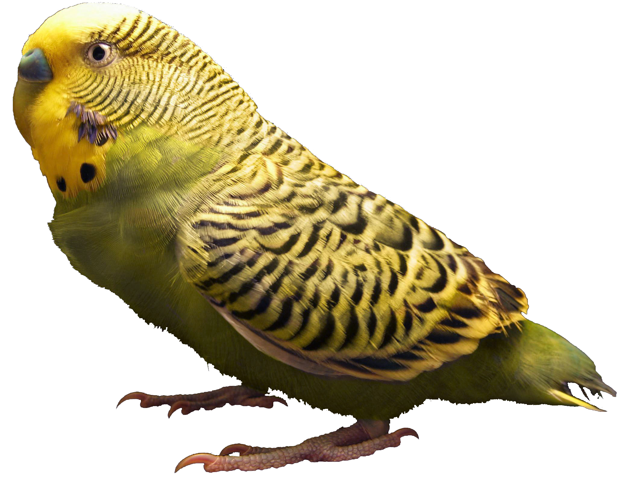 A budgerigar retouched in photoshop with a transparent background